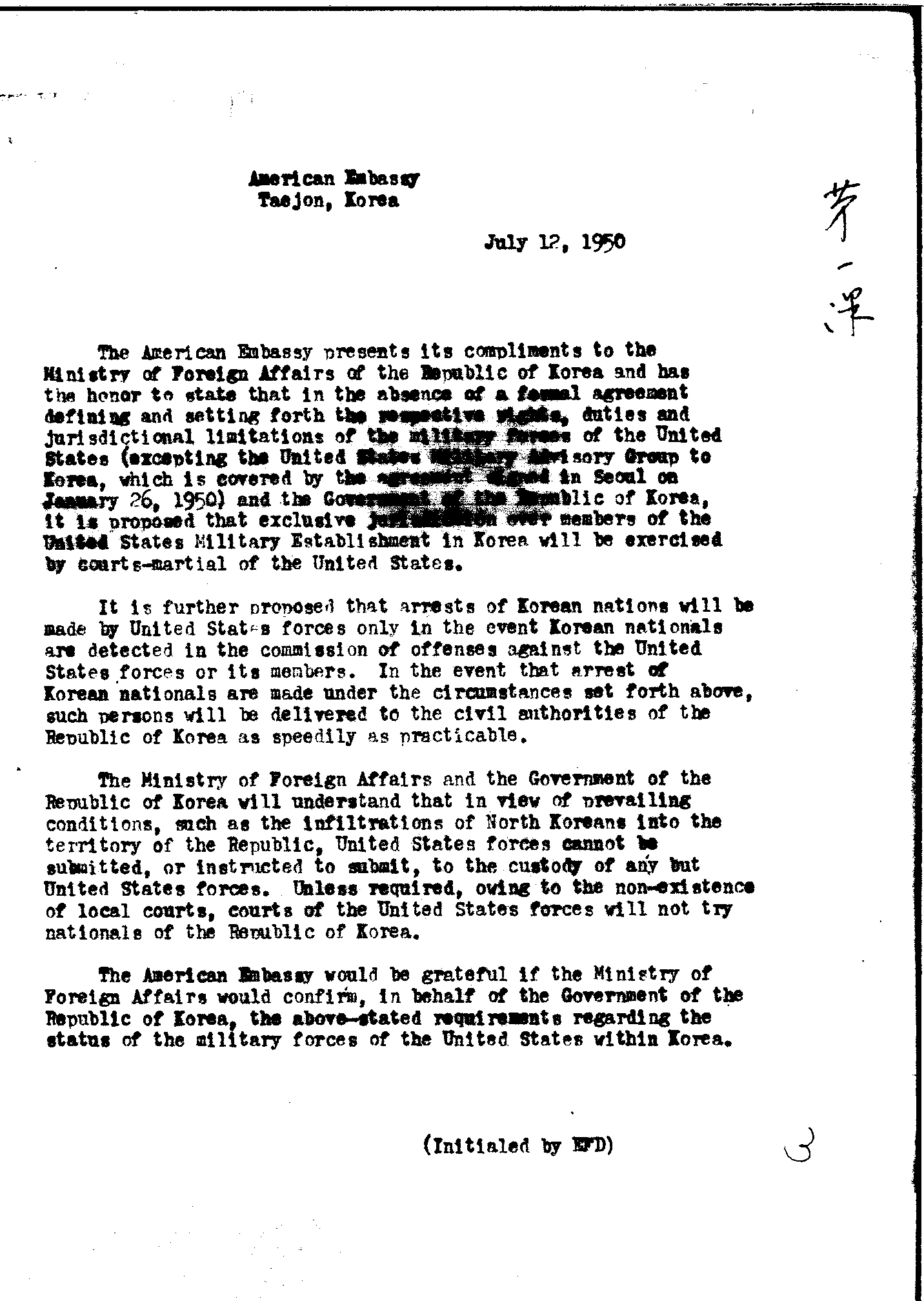 Page 1 of Agreement relating to Jurisdiction over Criminal Offences committed by the United States Forces in Korea between the Republic of Korea and the United States of America